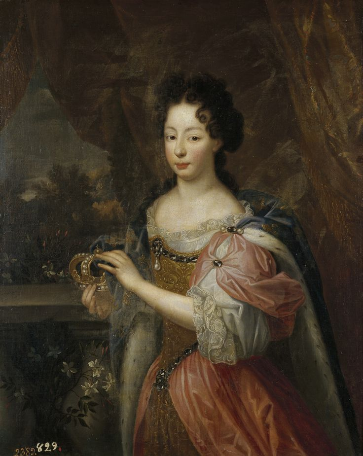 Portrait of Anne Marie d'Orléans (1669-1728), formerly identified as her niece Louise Élisabeth d'Orléans (1709- 1742)